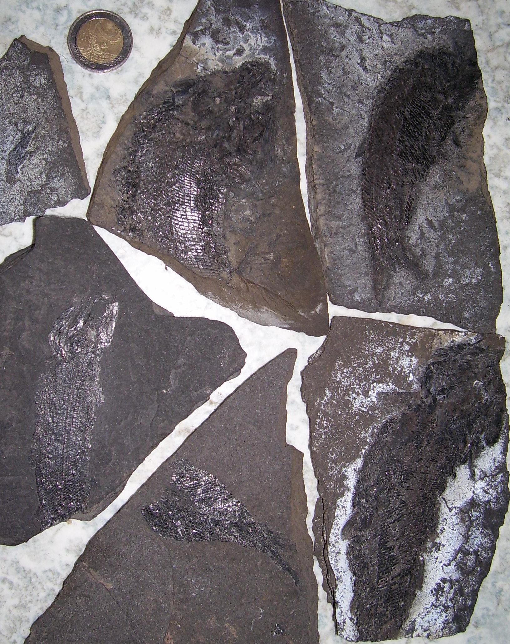 Fossil fish (presumably all specimens of Palaeoniscum freieslebeni) preserved in black shale (i. e. basinal facies) of the Copper Shale (basal Zechstein series, Upper Permian). The specimens have been collected from spoil heaps of old copper mines in the vicinity of Buchholz near Nordhausen at the southern rim of the Hartz Mts., Ilfeld Basin, northern Thuringia, Germany. See 2 € coin (25,75 mm in diameter) for scale.